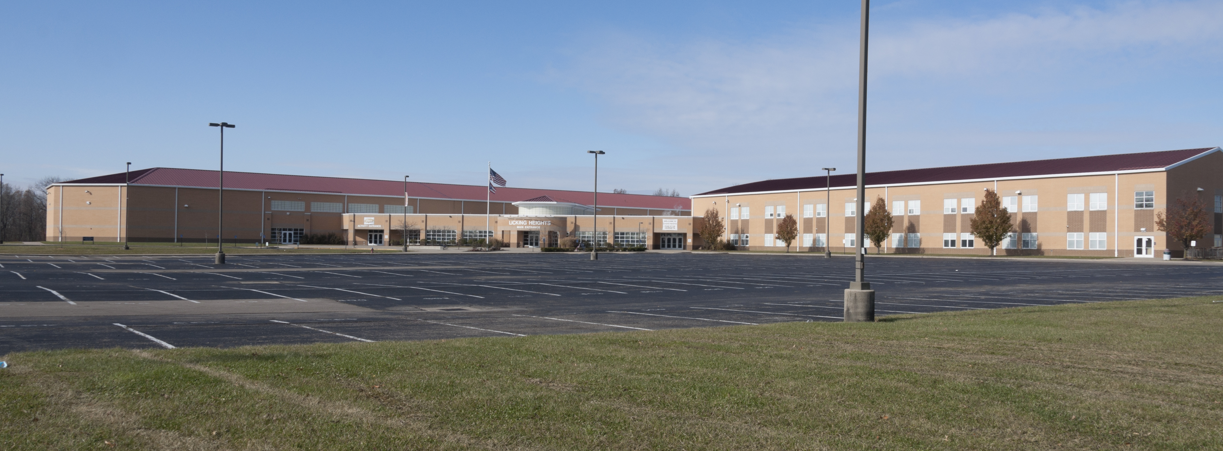 Licking Heights High School located in Pataskala, Ohio is the only high school in the Licking Heights Local School District. The headquarters for the Licking Heights Local School District is located in the same complex as the high school. The adverage yearly enrollment for grades 9-12 is ~1000 students.